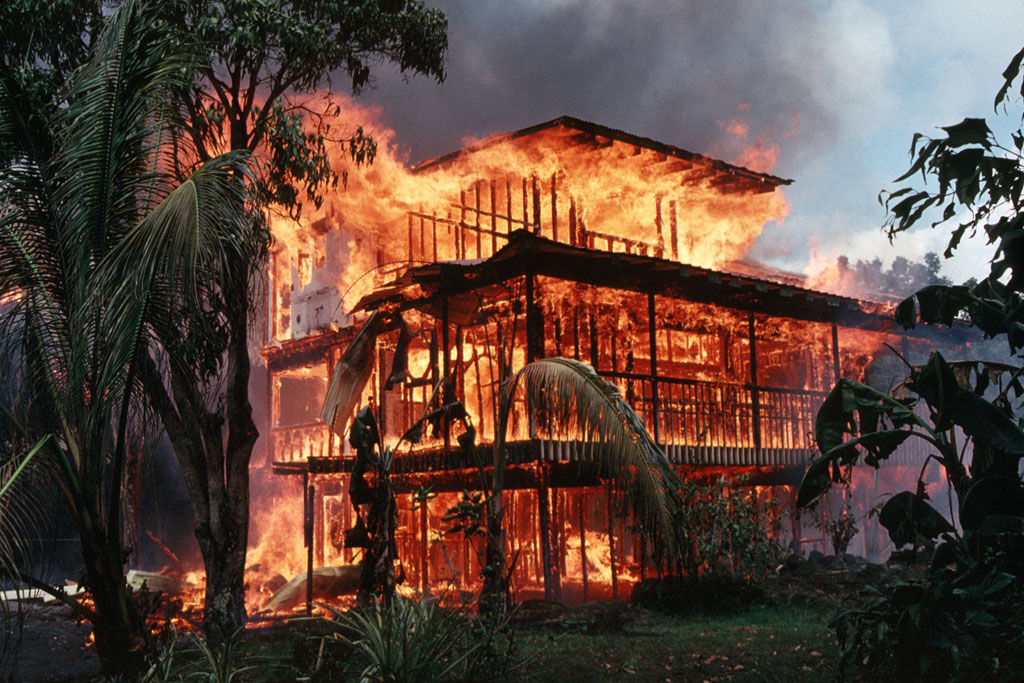 A three-story house in Kalapana Gardens is ignited by a lava flow, which entered the subdivision on April 17, 1990. By the 24th, more than a dozen houses were destroyed. The total number of homes destroyed by the eruption was 121 by the end of 1990.